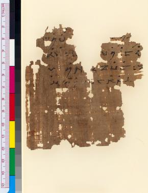 This text is out of copyright. The director of the U-M Papyrus Collection agve me permission to use this image, which is owned by the Collection, in the Wikipedia article.